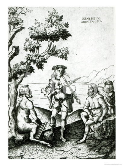 Benedetto Montagna: The Contest of Apollo and Pan